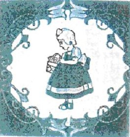 The Irma Girl logo, designed 1907 and modeled after Else Greiffenberg (1904-1998), the artist's daughter.